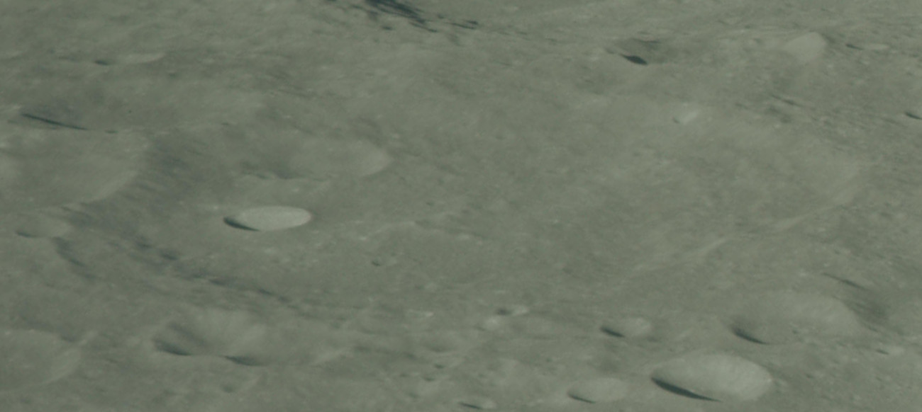 Oblique view of Kurchatov crater, on the far side of the moon, facing north.